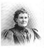 Luella Dowd Smith